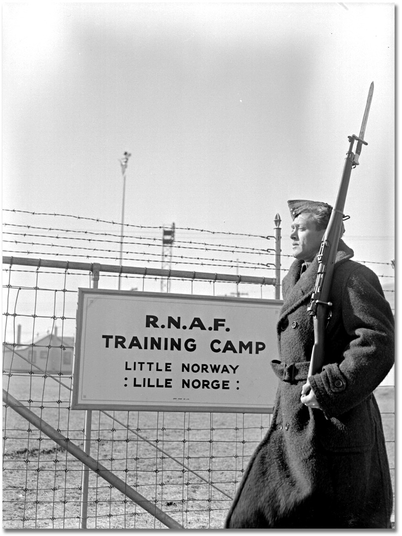 Little Norway, November 1940 (Royal Norwegian Air Force training facility in Toronto, Canada)